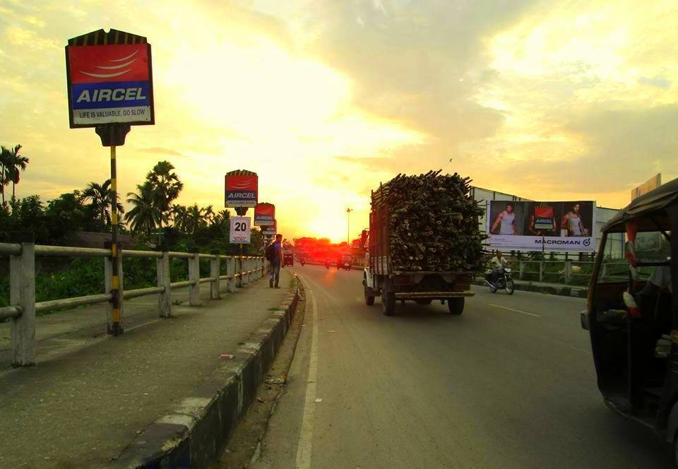 road of bongaigaon city